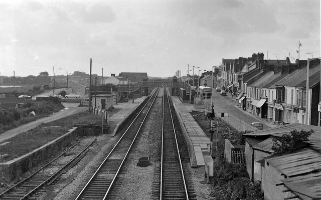 Pembrey & Burry Port Station. View westward, towards Carmarthen etc.; Great Western South Wales main line, Cardiff, Swansea etc. - Carmarthen, Pembroke Dock, Fishguard and Milford Haven. (Unfortunately, I'm not sure of the date: it might be rather earlier)